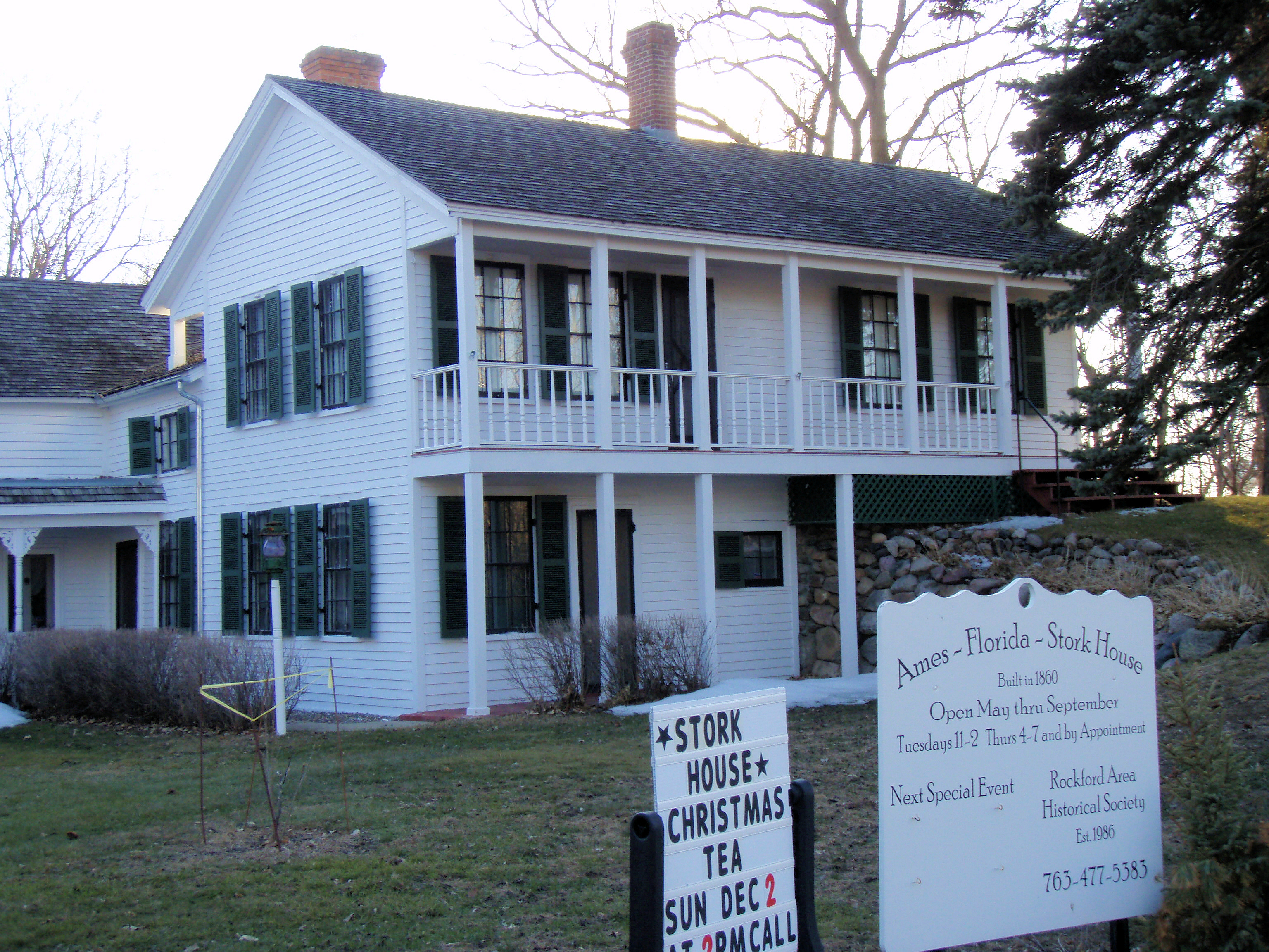 Ames-Florida House in Rockford, Minnesota, listed on the National Register of Historic Places.